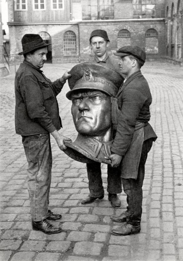 Nationaal Archief/Spaarnestad Photo